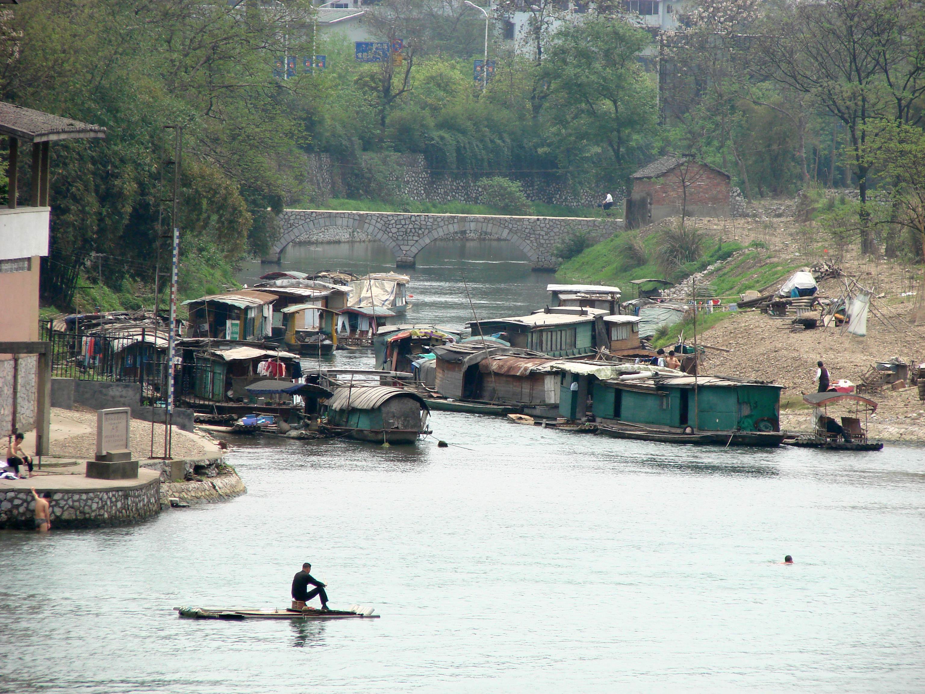 Guiling boat people